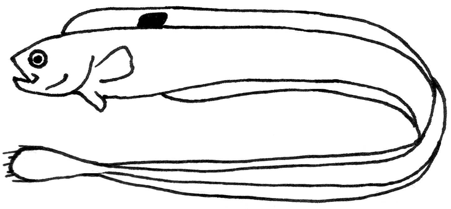 Cepola macrophthalma